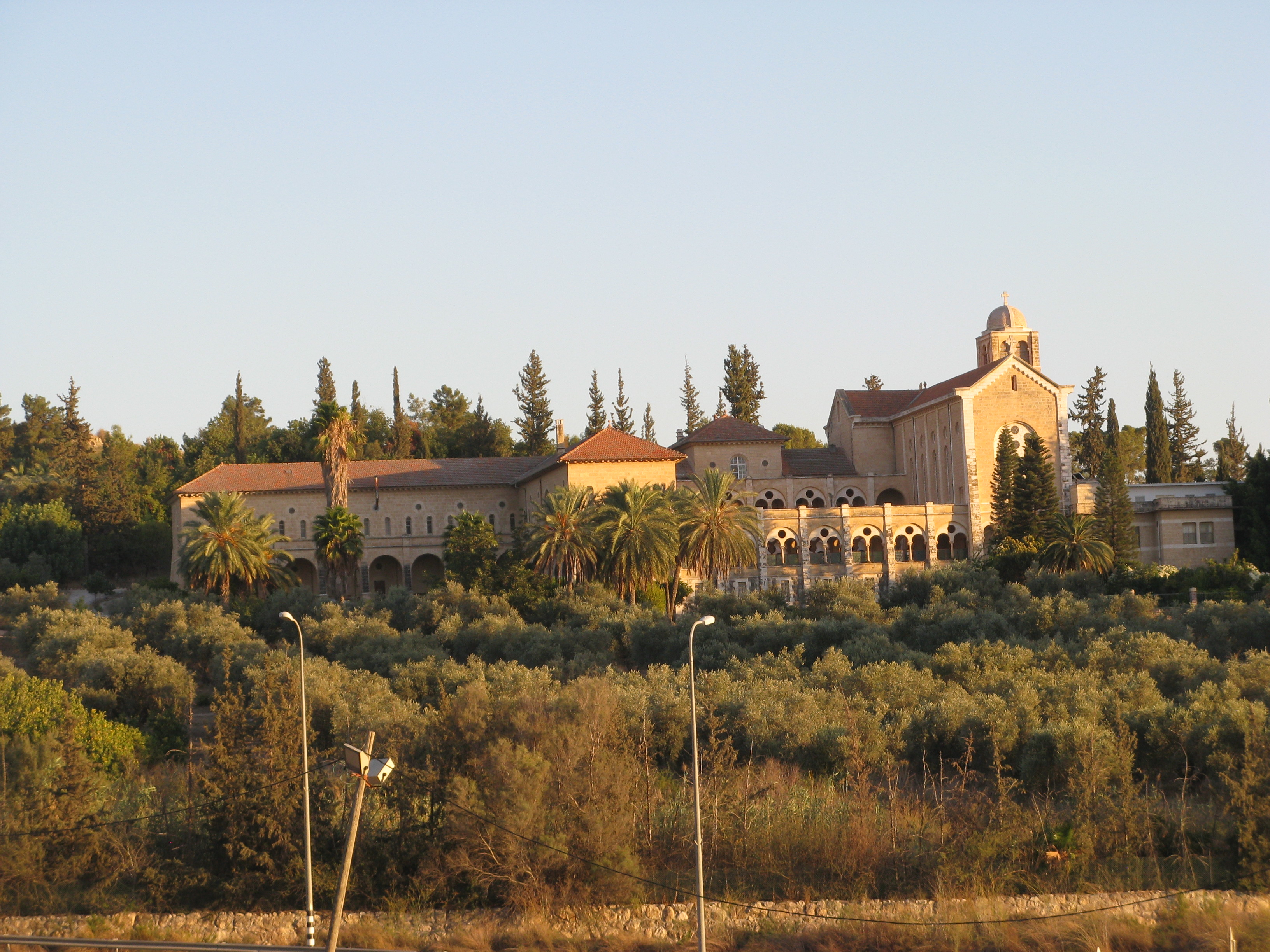 Latrun Monastery.